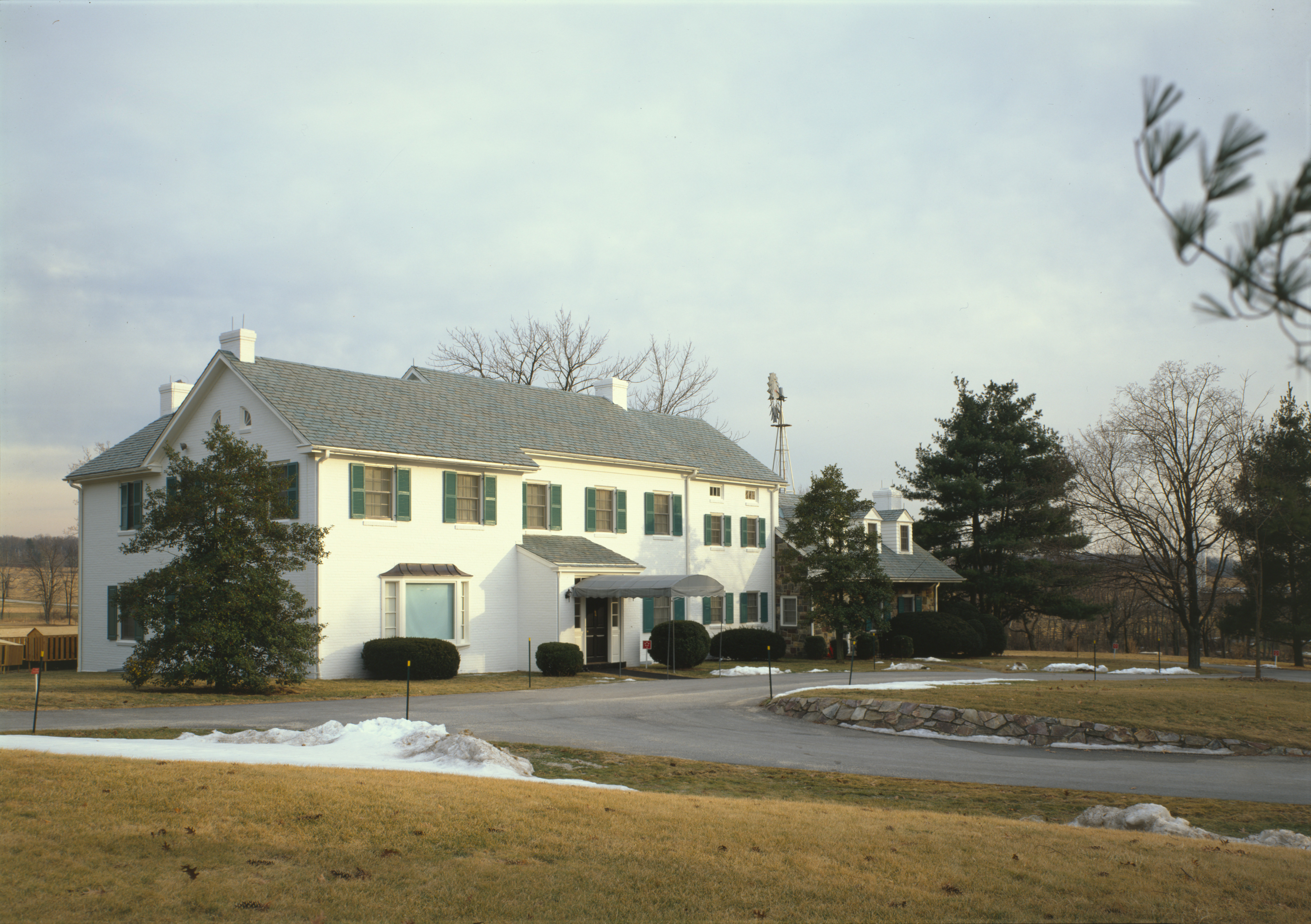 Perspective view of the main house of the Eisenhower Farm, Emmitsburg Road (U.S. Route 15), Gettysburg, Adams County, Pennsylvania